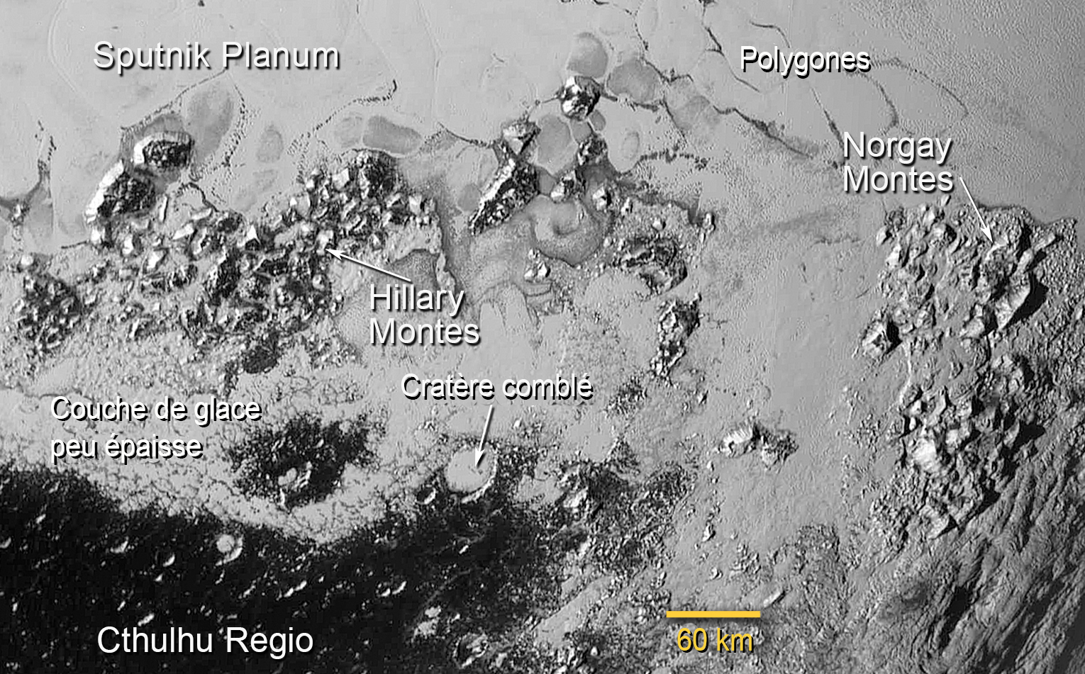 Annotated image of the southern region of Pluto’s Sputnik Planum. The large crater highlighted in the image is about 30 miles (50 kilometers) wide, approximately the size of the greater Washington, DC area.(french labels)